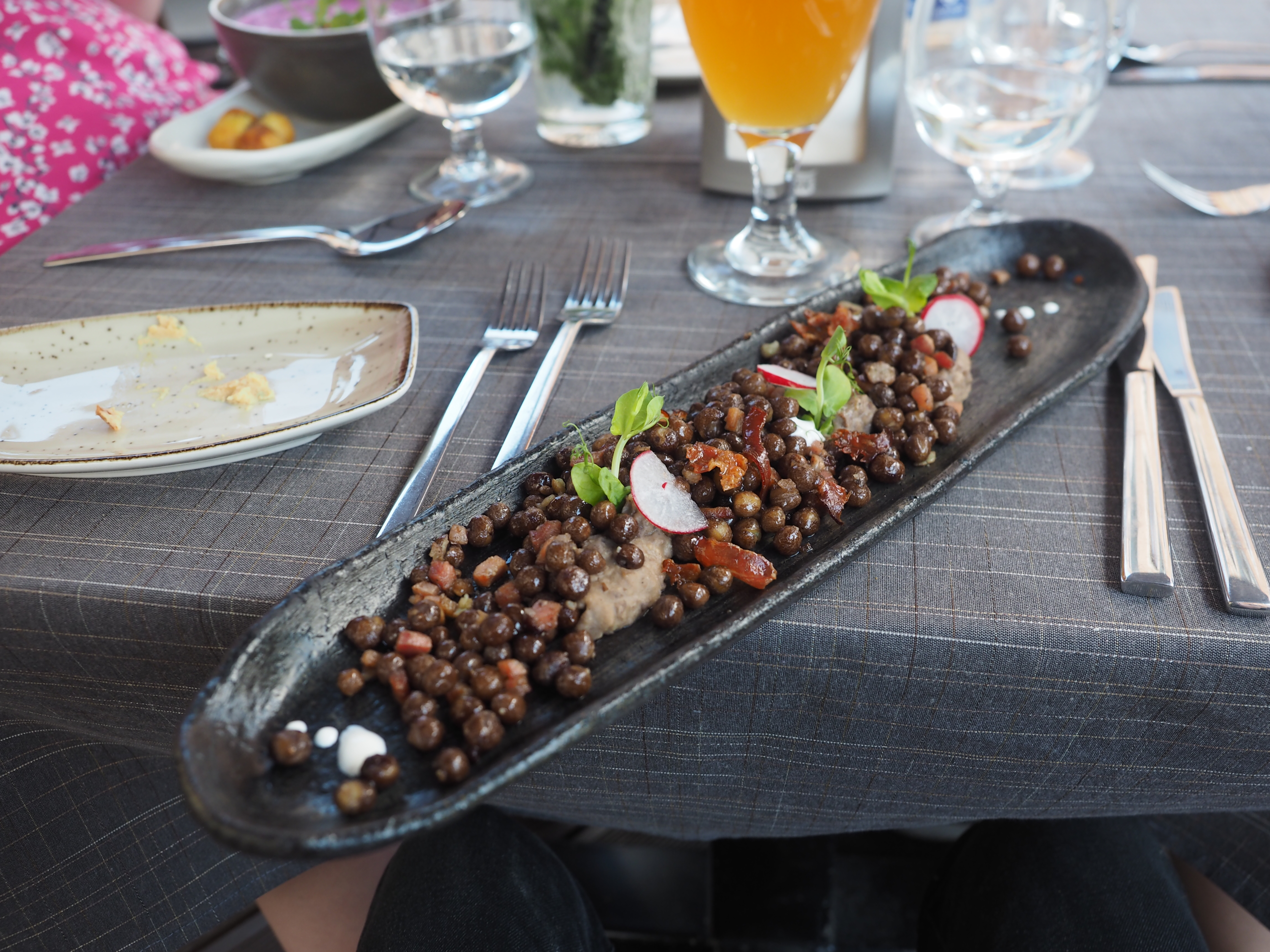 A plate of Latvian traditional grey peas with bacon and vegetables, served as an appetiser at restaurant Milda in the old town of Riga, Latvia.